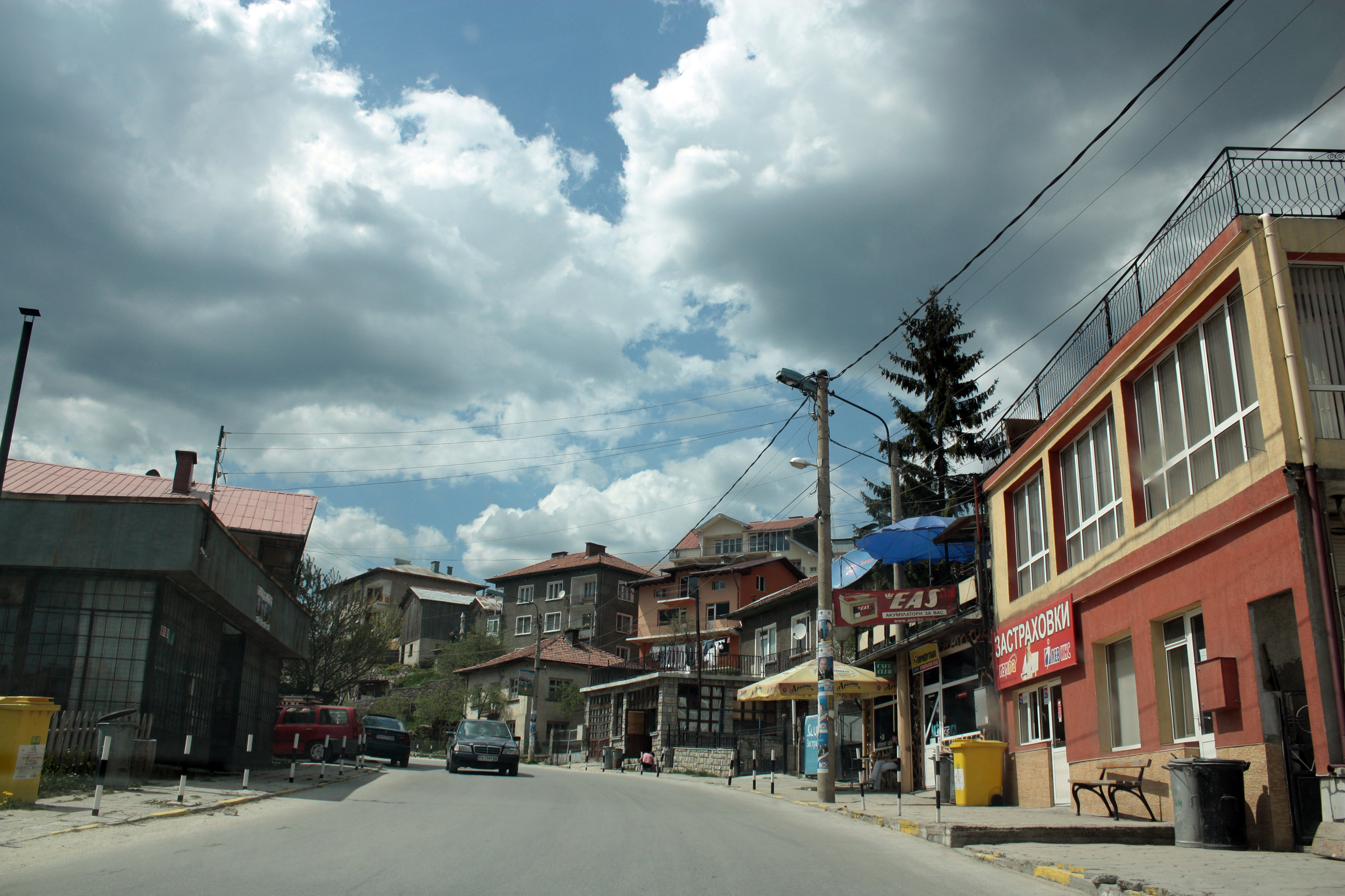 The main street in Sarnitsa, Bulgaria